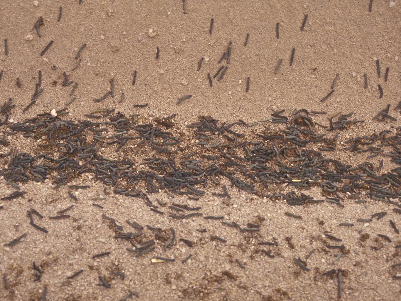 African armyworms marching along a road in Kilosa District, Tanzania